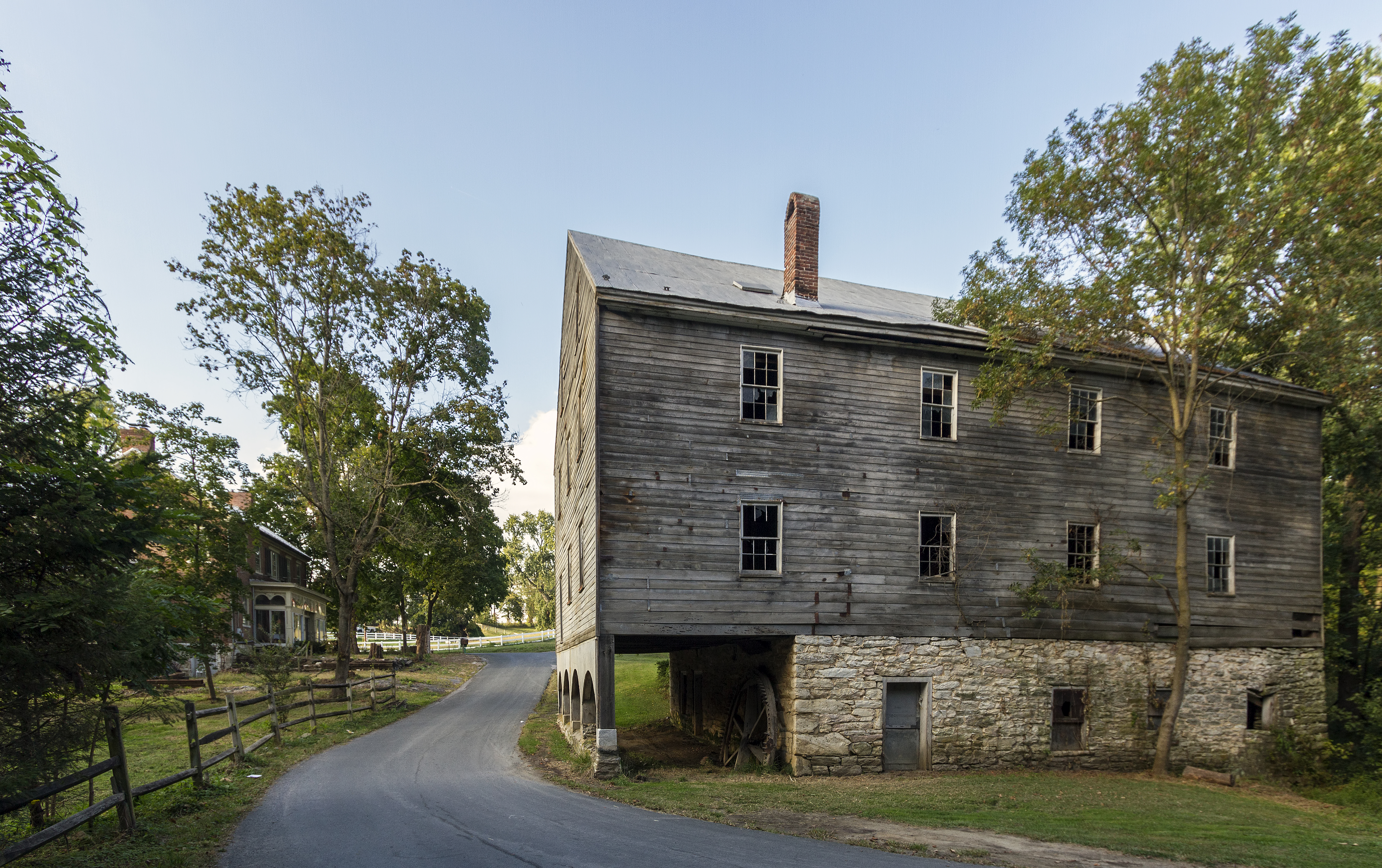 McKinstry's Mills Historic District, McKinstry's Mill, near New Windsor, Maryland, USA